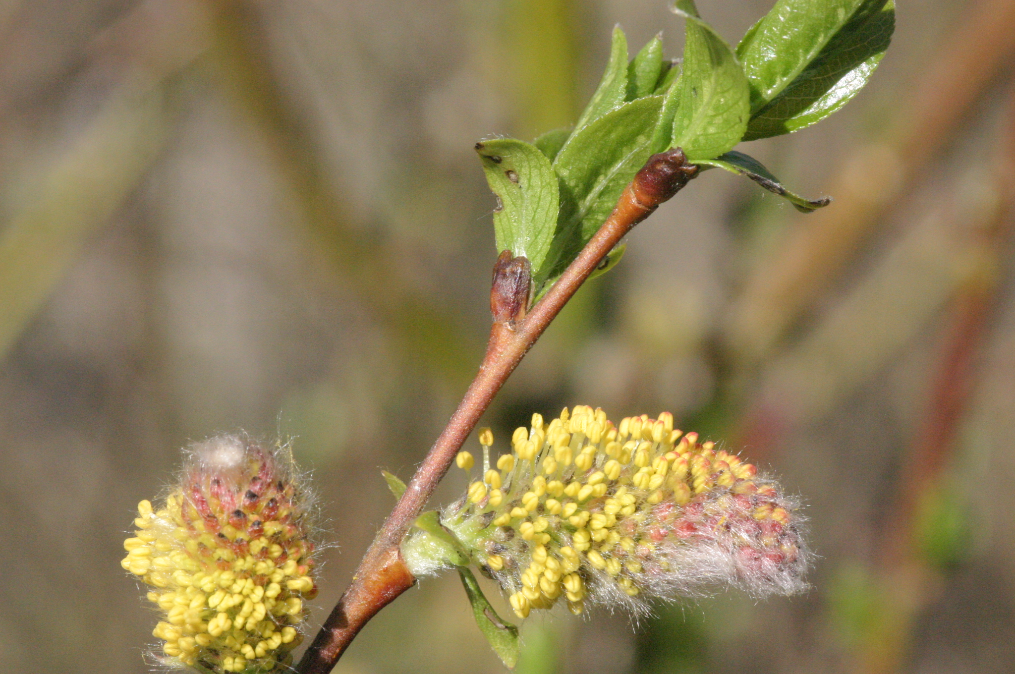 Salix myrsinifolia